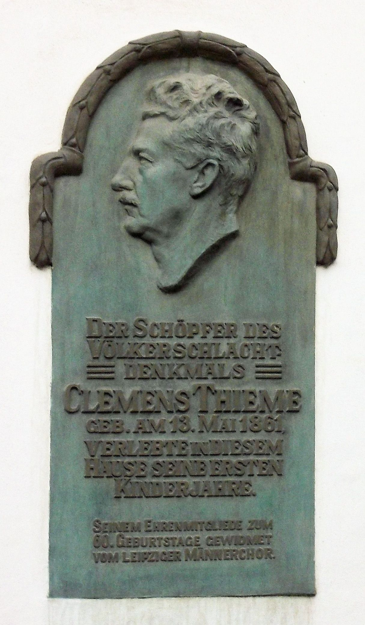 Memorial plaque to the architect Clemens Thieme at No. 13 of Rossmarktsche Strasse in Borna (Leipzig district, Saxony)